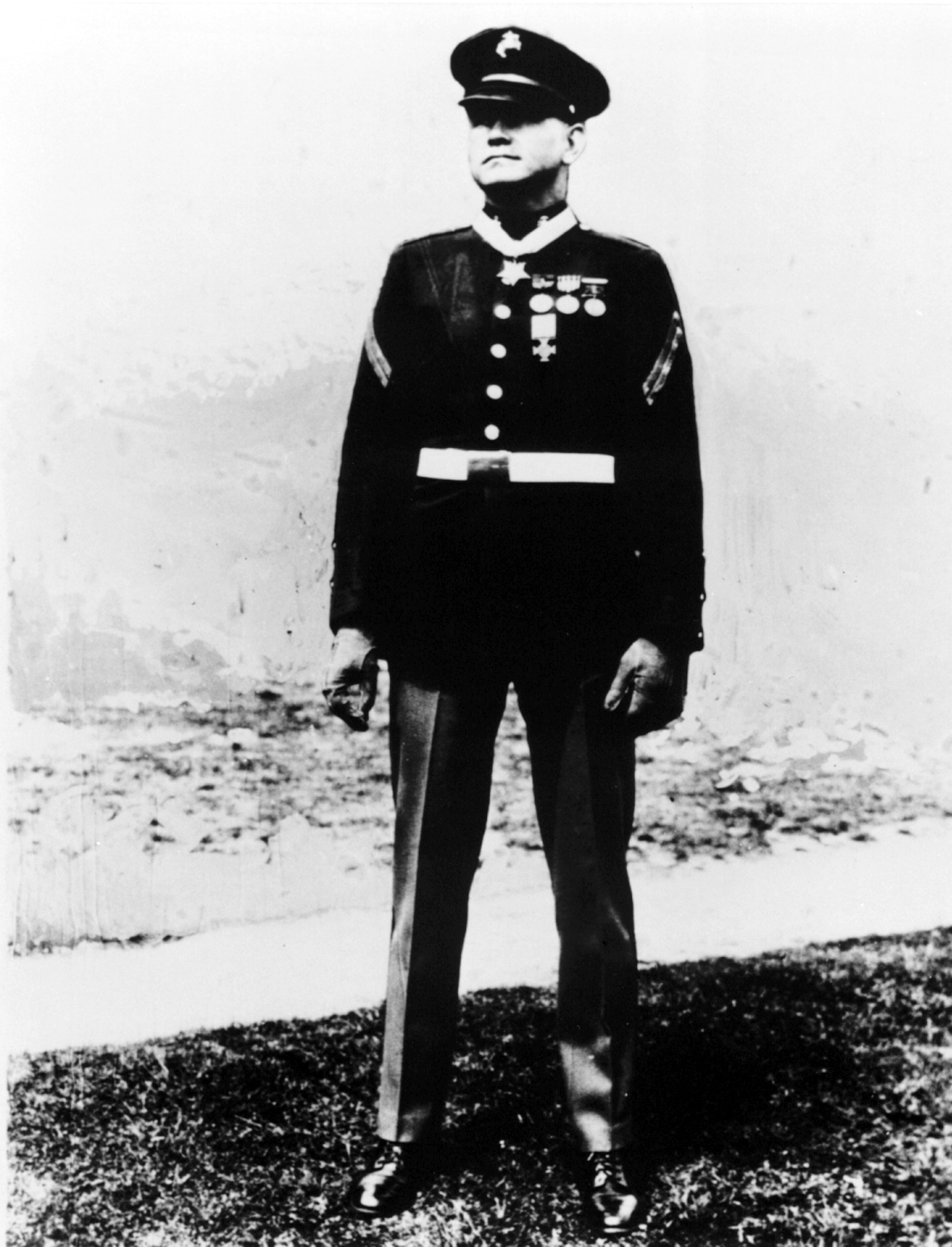 From [1], a USMC official site